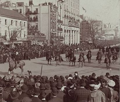 Maryland governor Edwin Warfield (left) leading the 3rd Brigade in the President Theodore Roosevelt's inaugural parade, photographed by William H. Rau on March 4, 1905. This images was cropped from a stereo card found here.